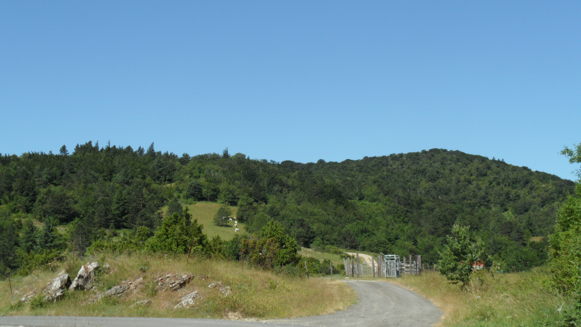 Redoulade pass (705 m), Aude, France